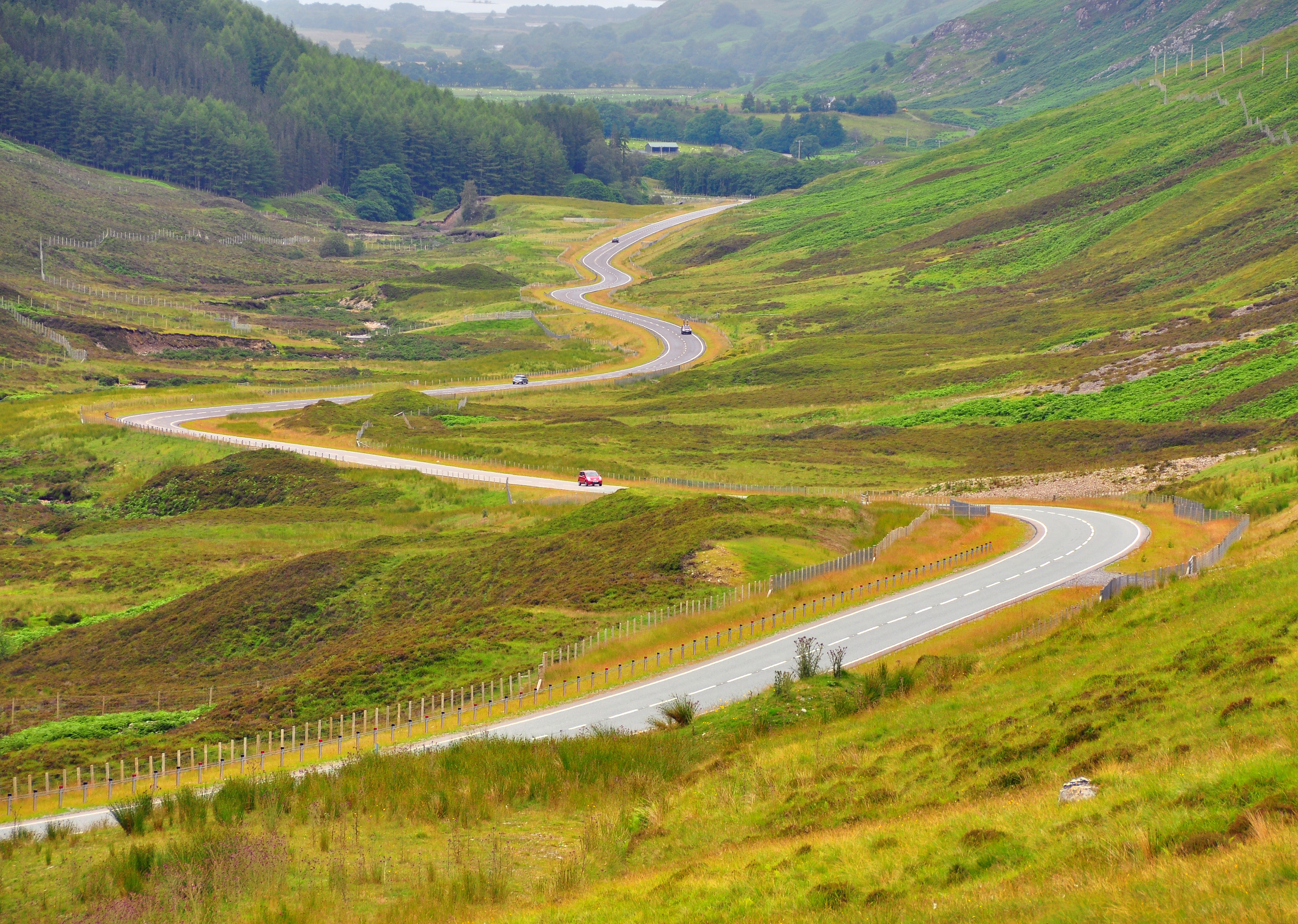 The A832 descending Glen Docherty, in the Scottish highlands, heading towards Loch Maree.